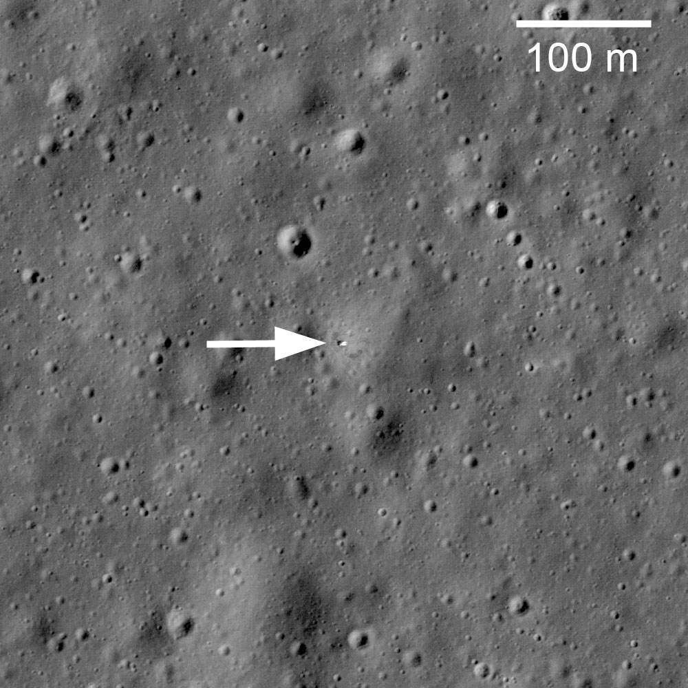 Lunar Reconnaissance Orbiter photo of Lunokhod 1 location